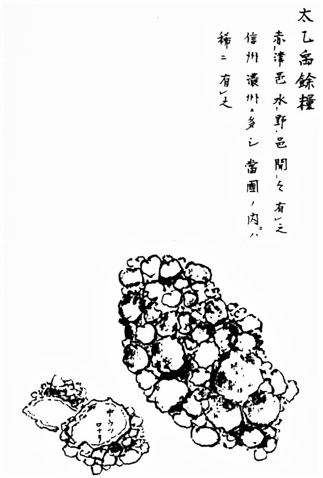 Taitsuuyoryo. Painting of "Mino no Tsuboishi" painted around 1780